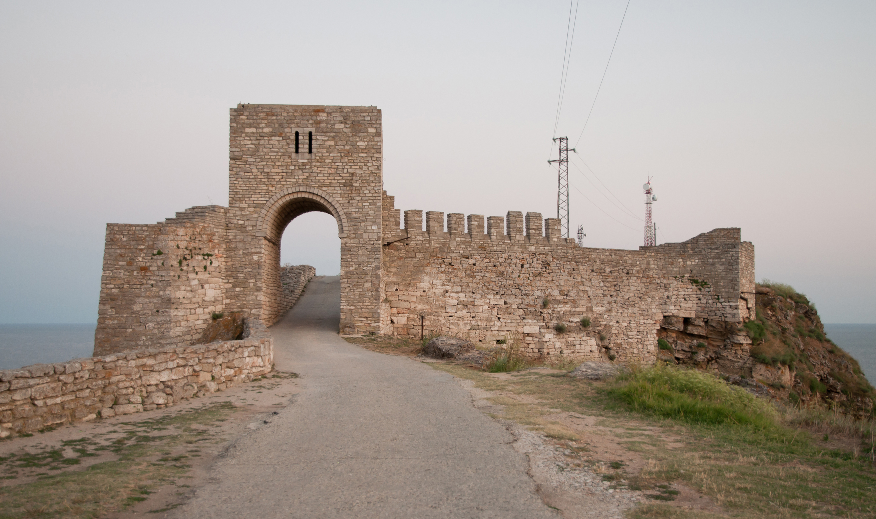 Kaliakra Fortress on the namesake Kaliakra headland in Kavarna municipality, Bulgaria.